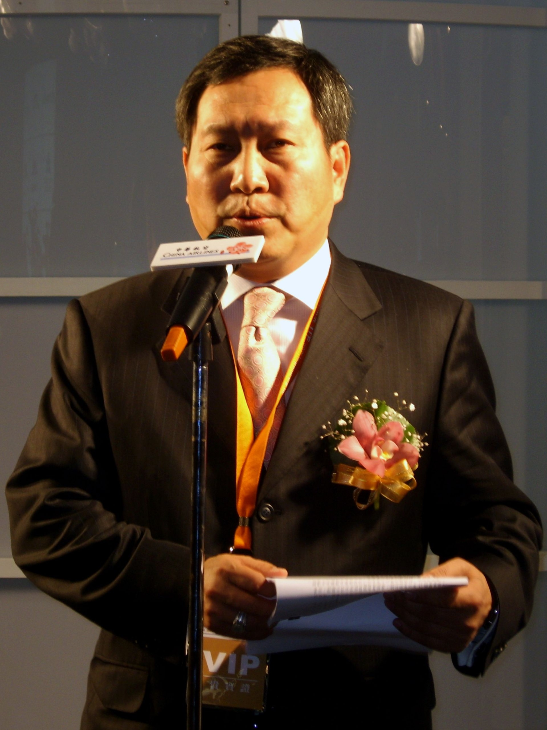 2007 Taipei International Travel Fair: Ringo Chao, Chairman of China Airlines.中文（台灣）: 2007臺北國際旅展，中華航空董事長兼總經理趙國帥。